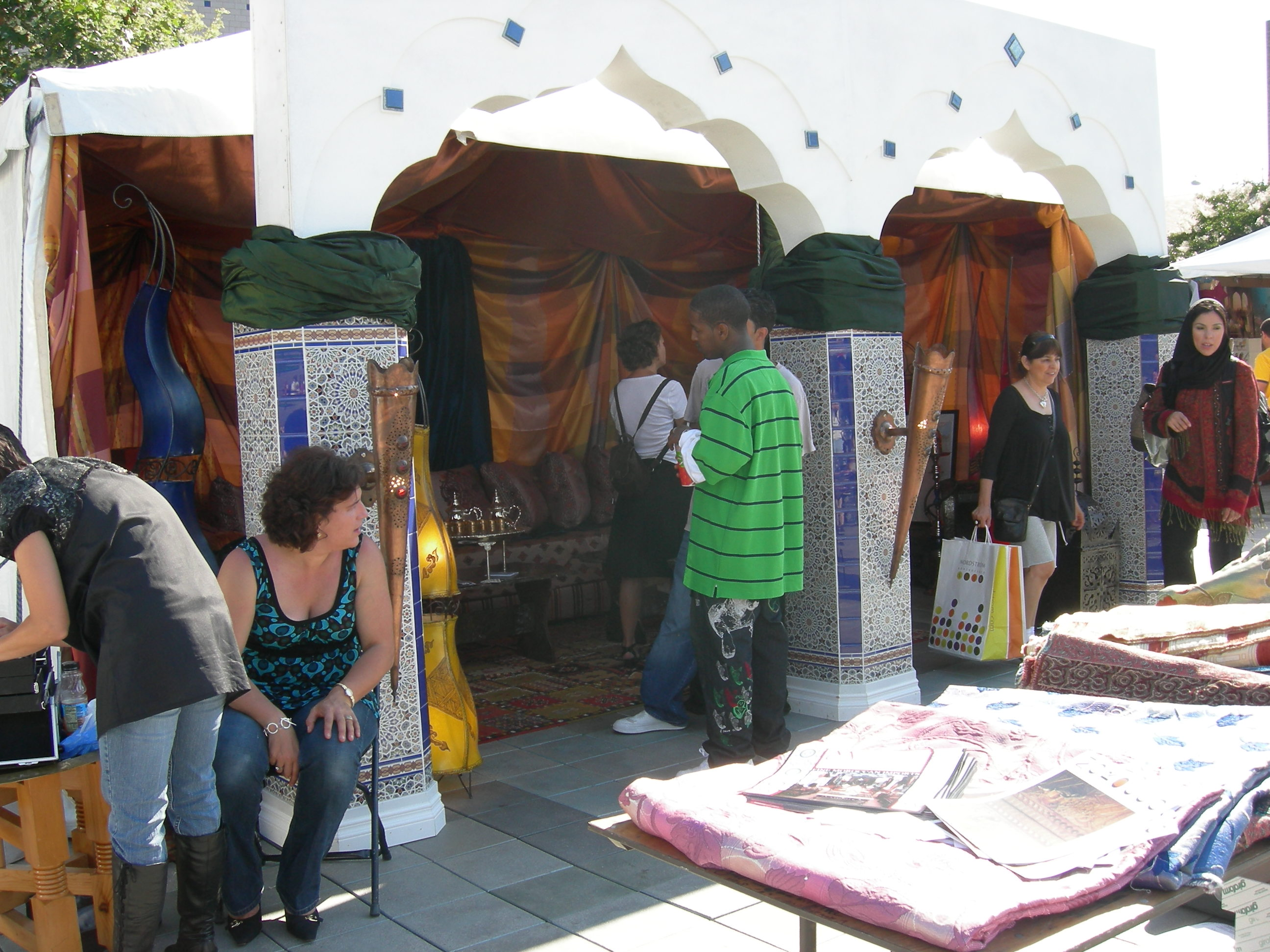 Arab Festival, country booth for Morocco. On the roof of the Fisher Pavilion, Seattle Center, Seattle, Washington.